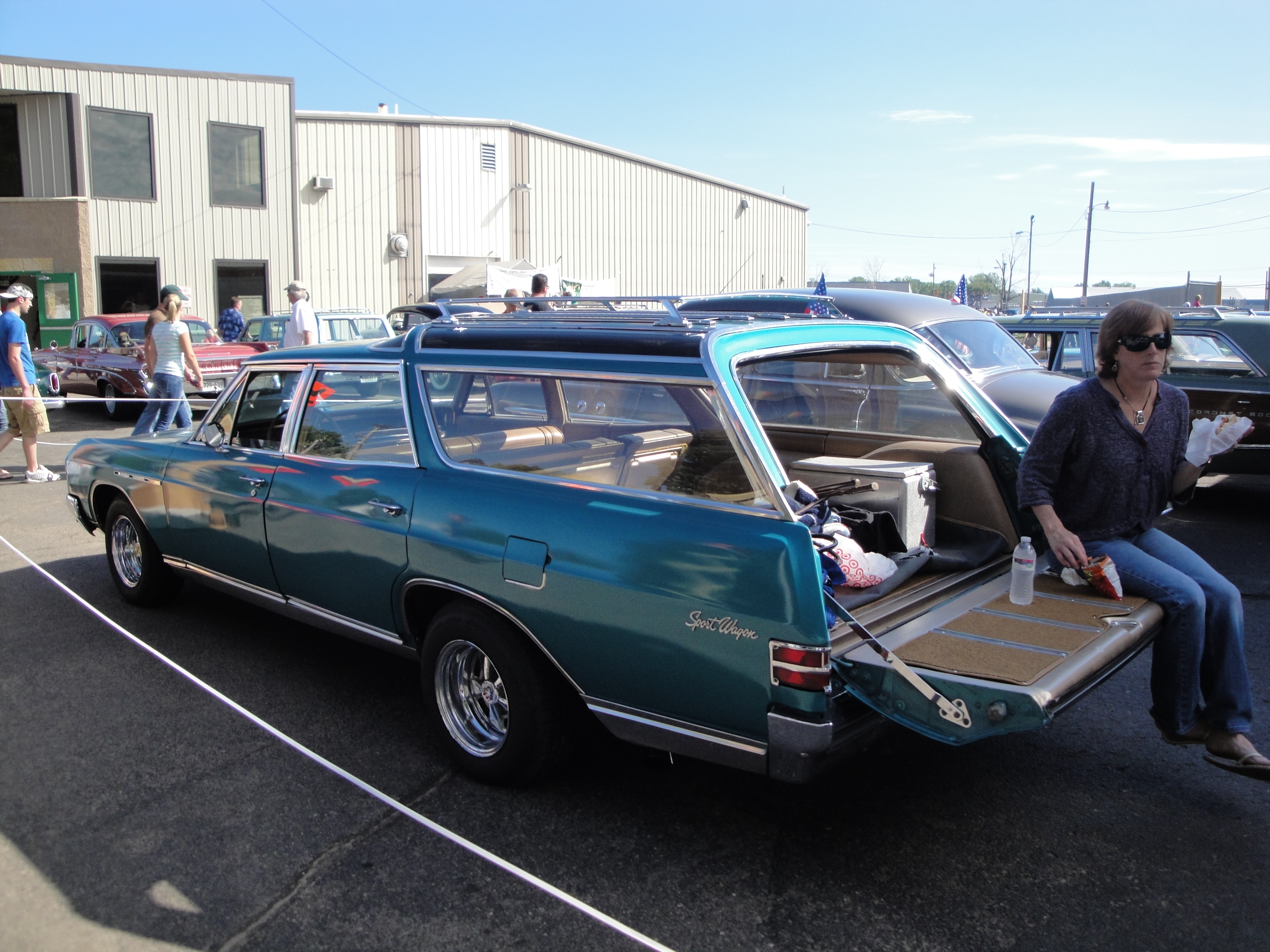 The Pantowners Annual Car Show and Swap Meet Sunday August 21, 2011